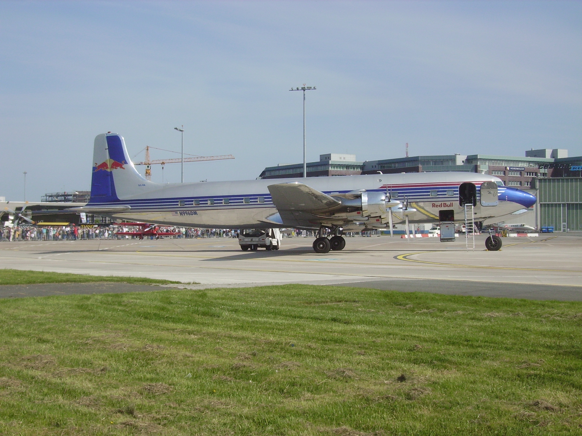 A Douglas DC-6B